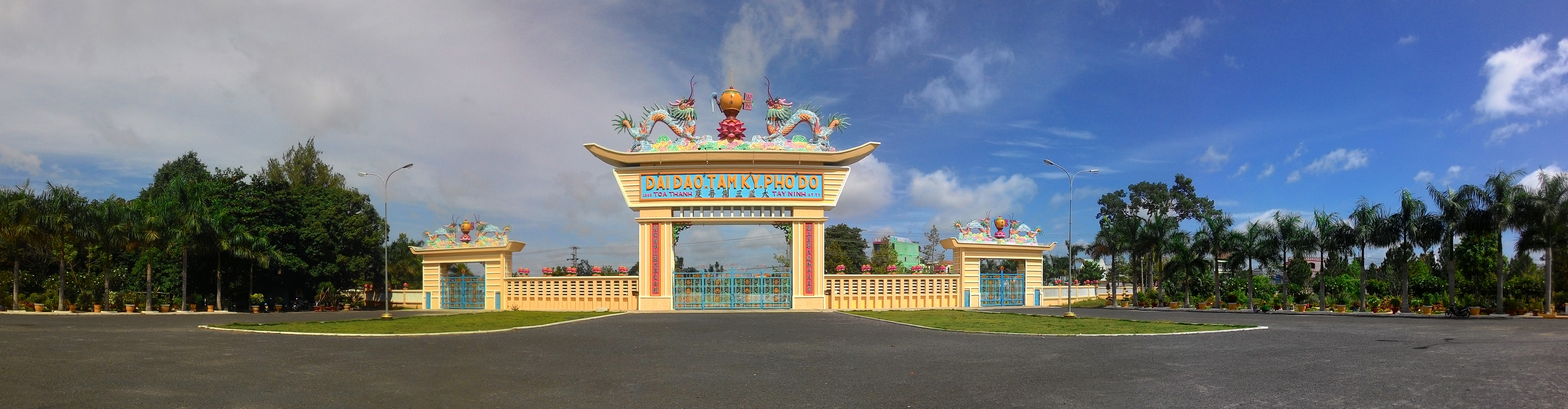 Panorama Cửa Chánh Môn nhìn từ hướng đông